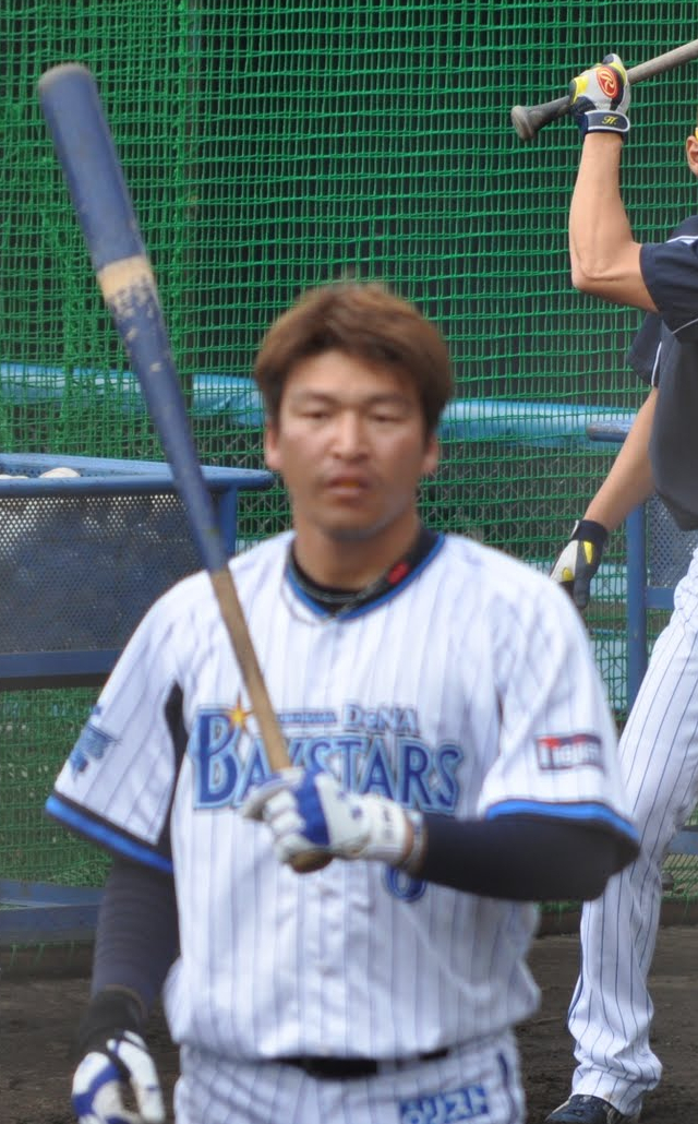 Masaaki Koike, outfielder of the Yokohama DeNA BayStars, at Ginowan Municipal Baseball Stadium.